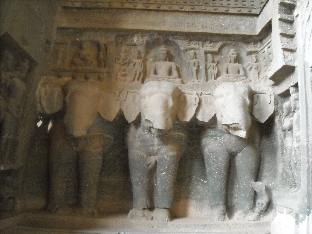 The Karla caves carvings